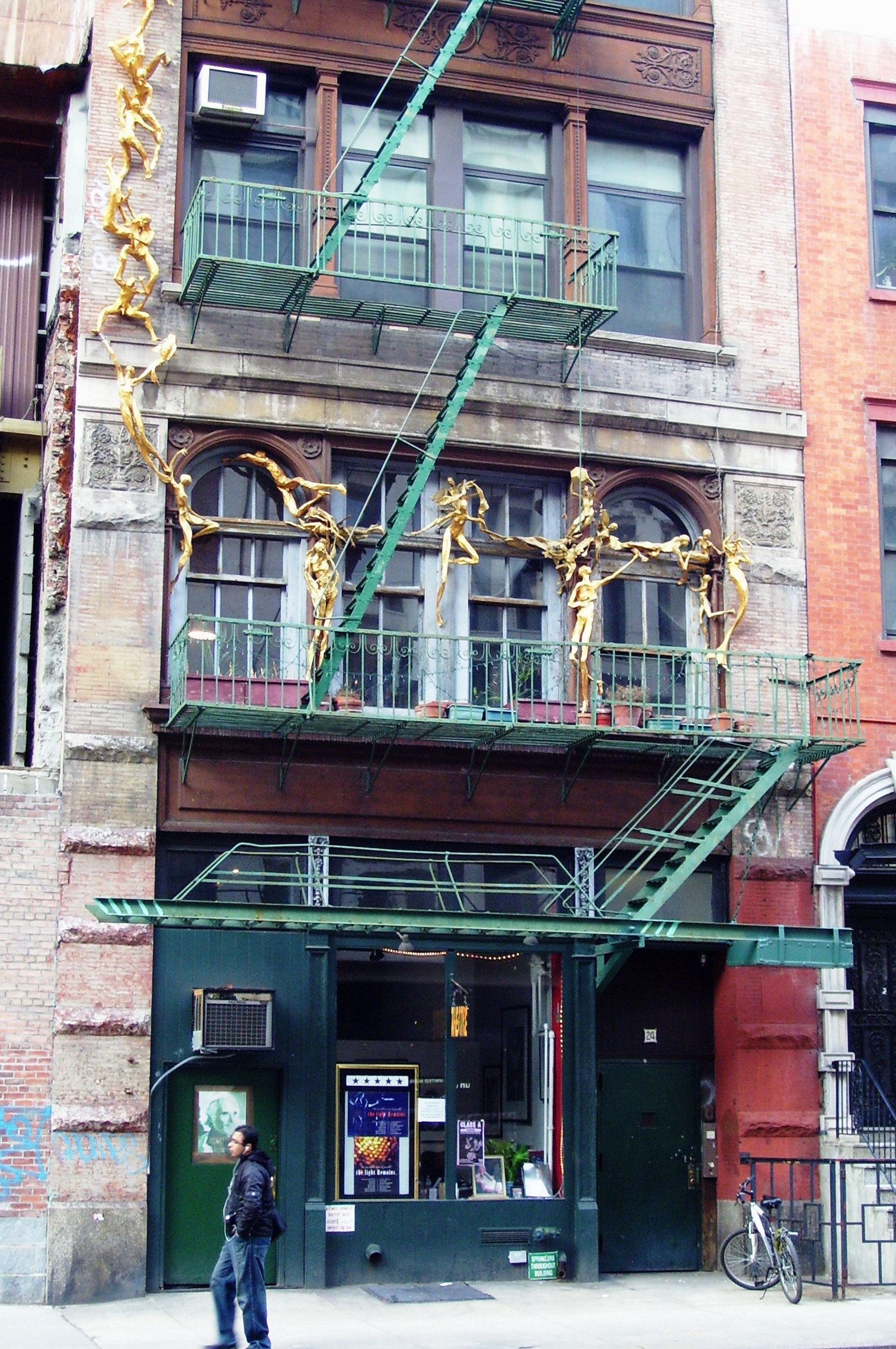 The Gene Frankel Theater at 24 Bond Street between the Bowery and Lafayette Street in the NoHo neighborhood of Manhattan, New York City. The building was constructed in 1893 and designed by Buchman & Deisler in Renaissance Revival style. The building was the location of Robert Mapplethorpe's studio from c.1972 until his death in 1989. The Gene Frankel Theater has occupied the street floor since 1986. The gold dancers on the outside of the building by sculptor Bruce Williams were added in 1998, and had to be retroactively approved by the NYC Landmarks Preservation Commission when the NoHo Historic District was extended to include the building in 2008. (Sources: NYCLPC Noho Historic District Extension Designation Report and [1], [2] from Curbed)